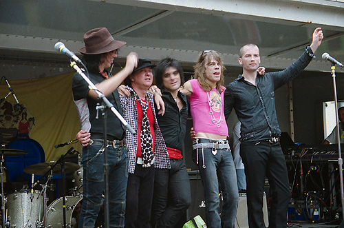 Photo of the New York Dolls in concert.